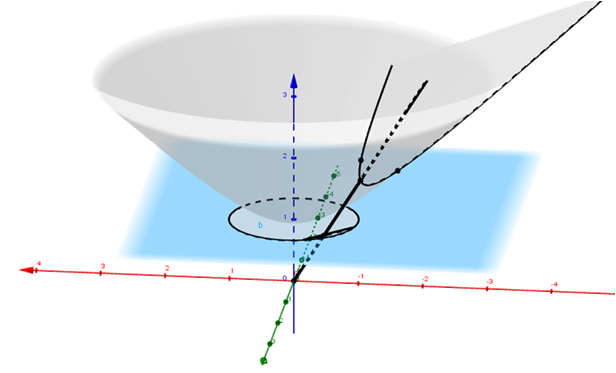 We can consider the Kelly-Klein model of a hyperbolic plane as the projection of an elliptical paraboloid